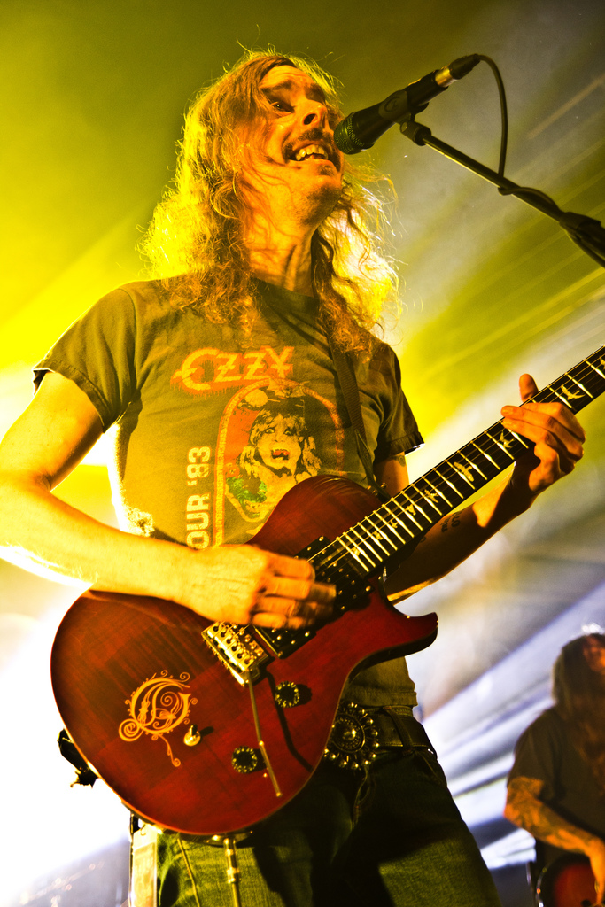 Mikael Akerfeld of Opeth at Leipzig 2012